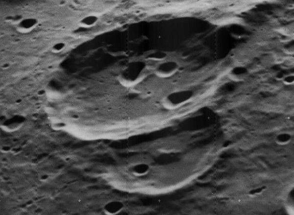 Oblique view of Chaffee, on the moon.